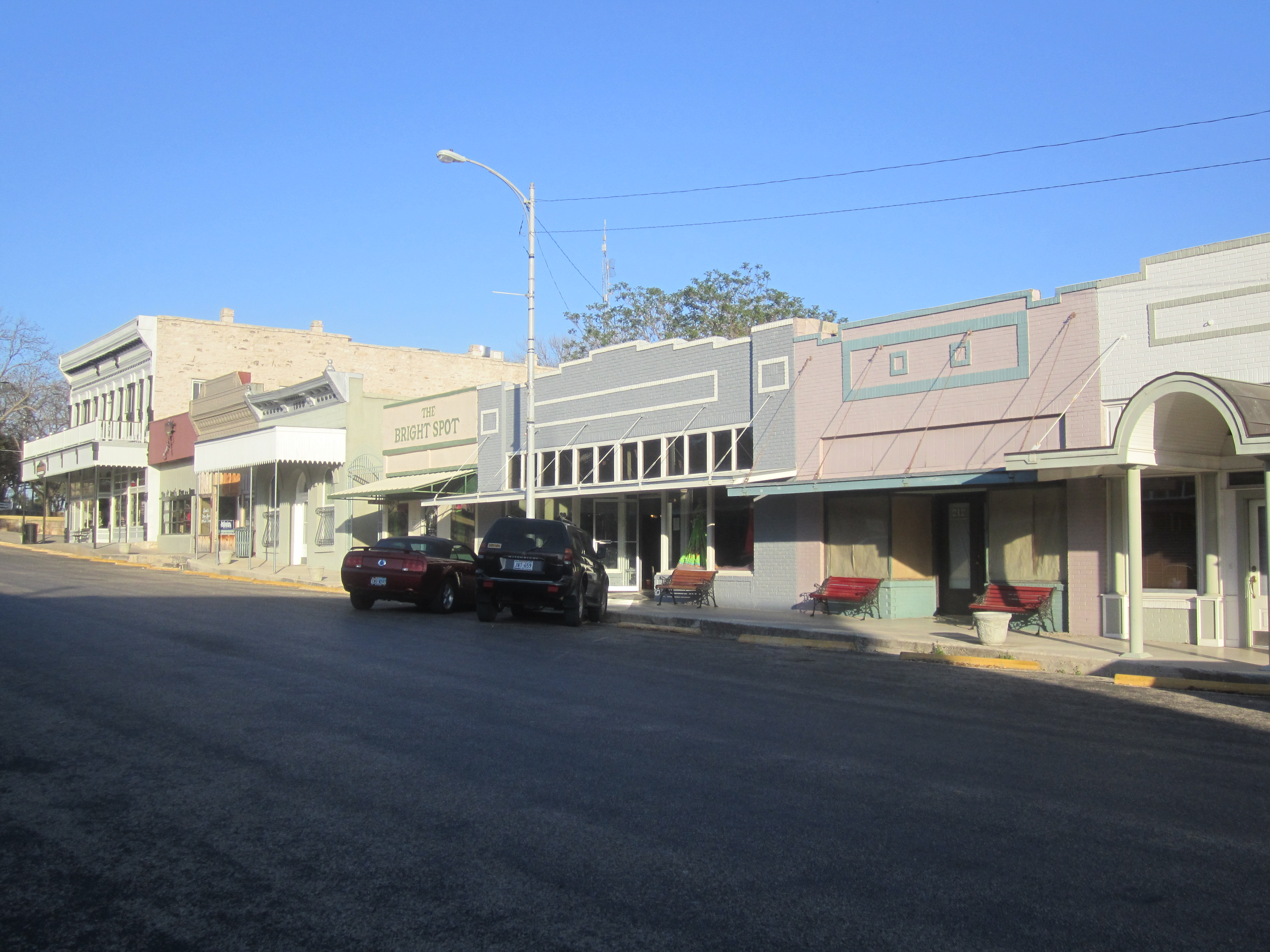 I took photo with Canon camera in Sonora, TX.